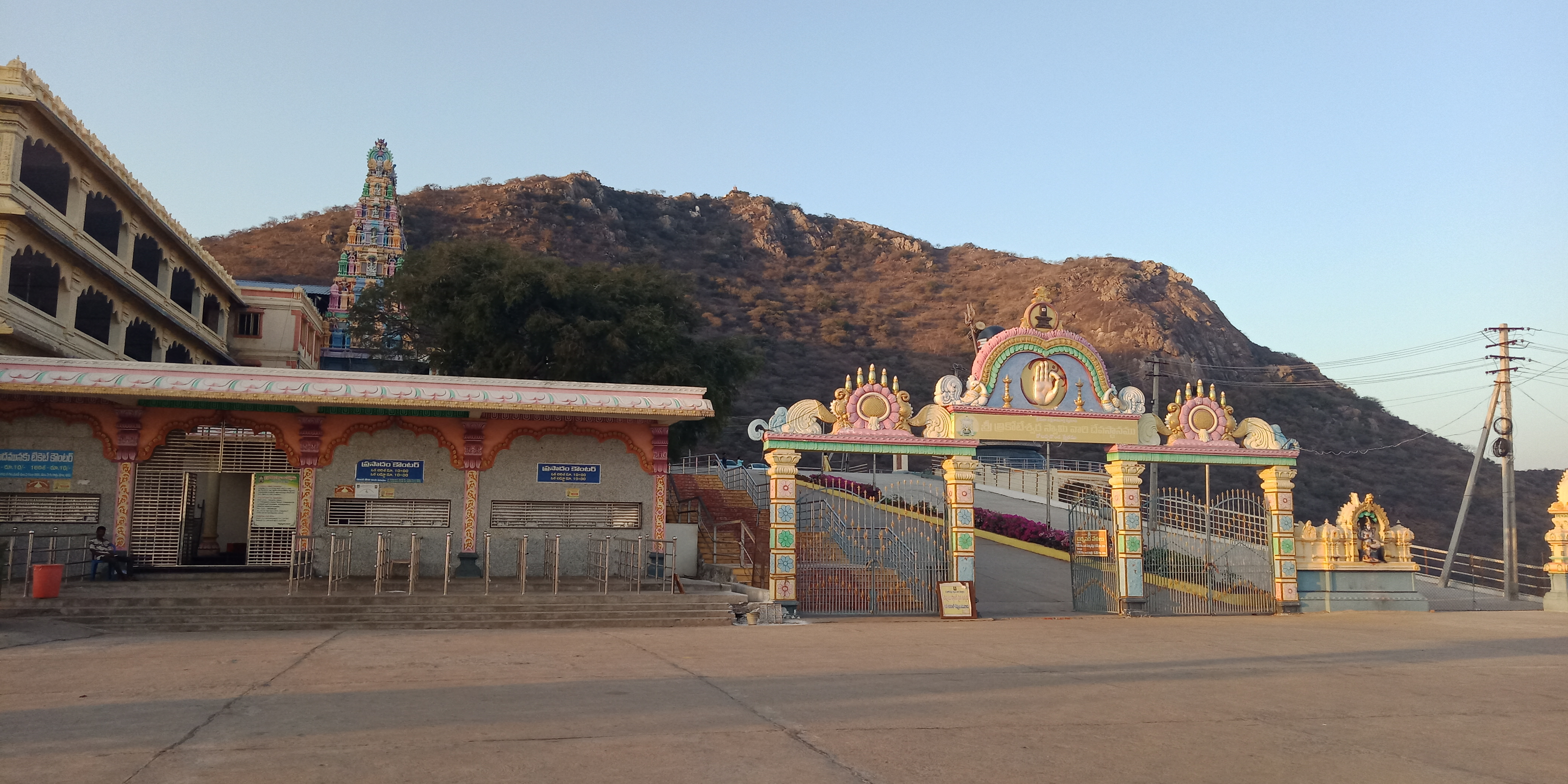 Kotappakonda Temple of the guntur district,in narasaraopet mandal